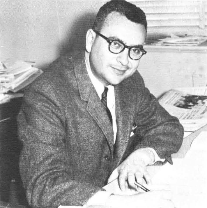 California Institute of Technology Professor Murray Gell-Mann